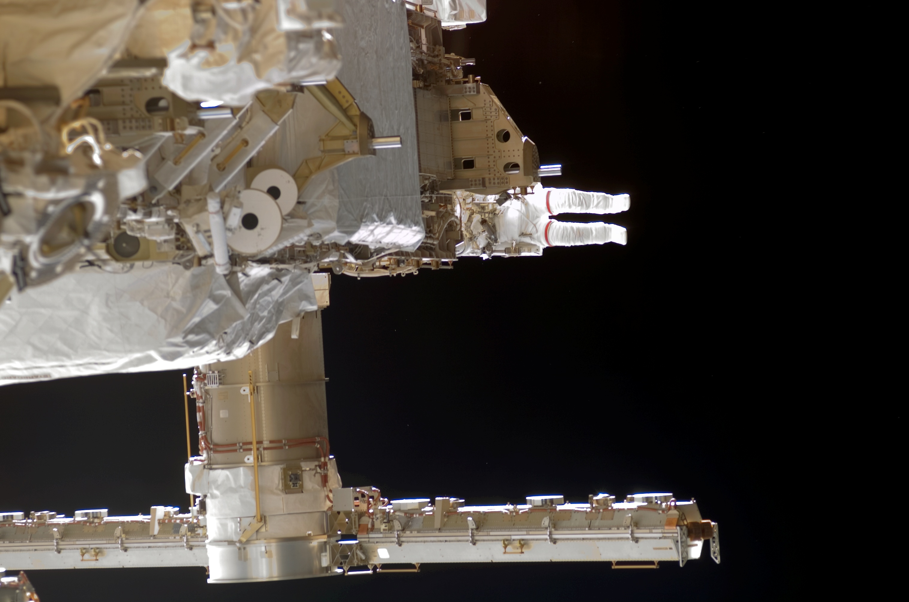 Astronaut Scott Parazynski participates in the third scheduled session of extravehicular activity as construction continues on the International Space Station